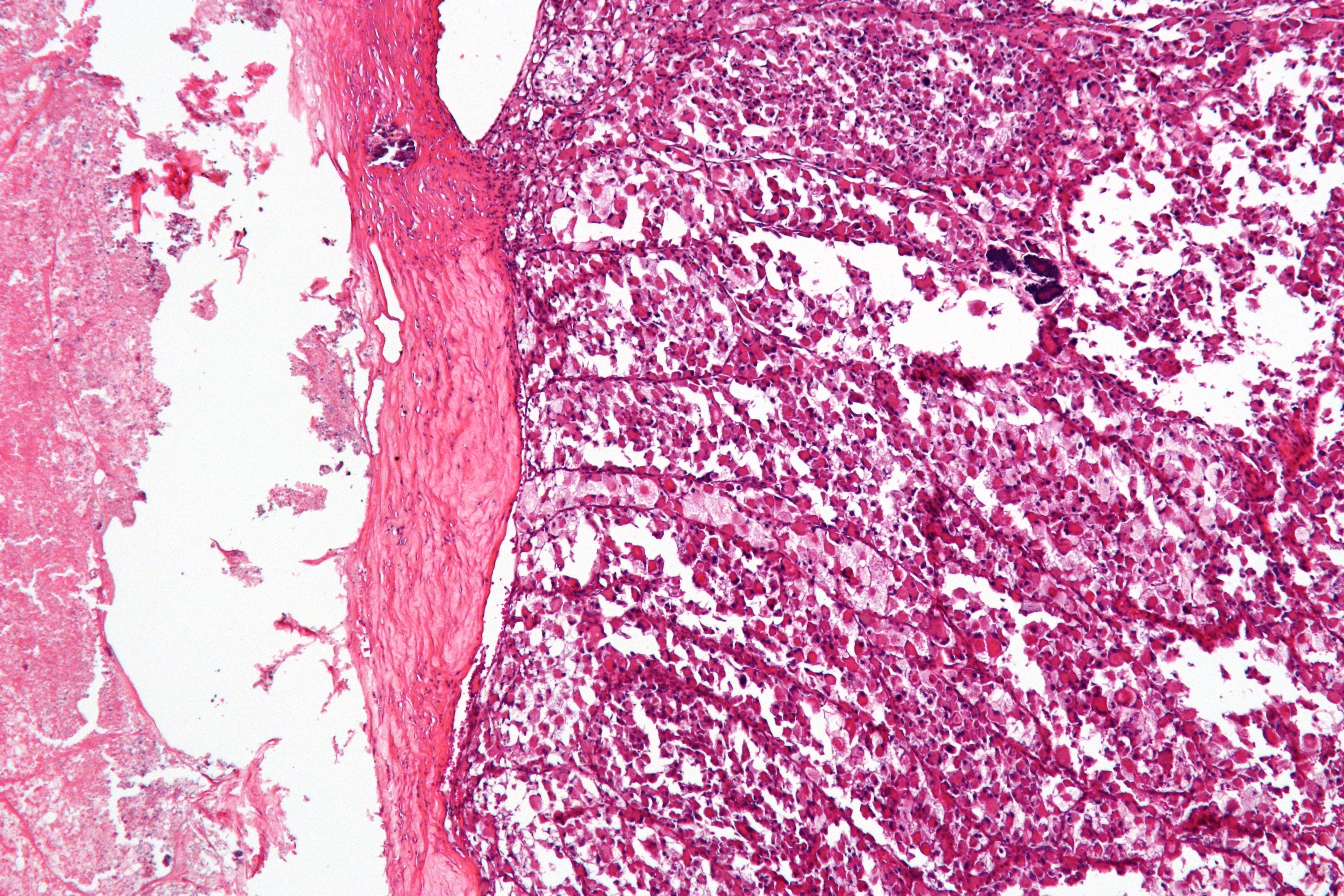 Low magnification micrograph of an alveolar soft part sarcoma, commonly abbreviated ASPS. H&E stain. The images show characteristic features of ASPS: An alveolar/nested architecture. Cells with: Abundant eosinophilic cytoplasm. An eccentric nucleus. Calcification. Related images Very low mag. Low mag. Intermed. mag. High mag. Very high mag. Very high mag.